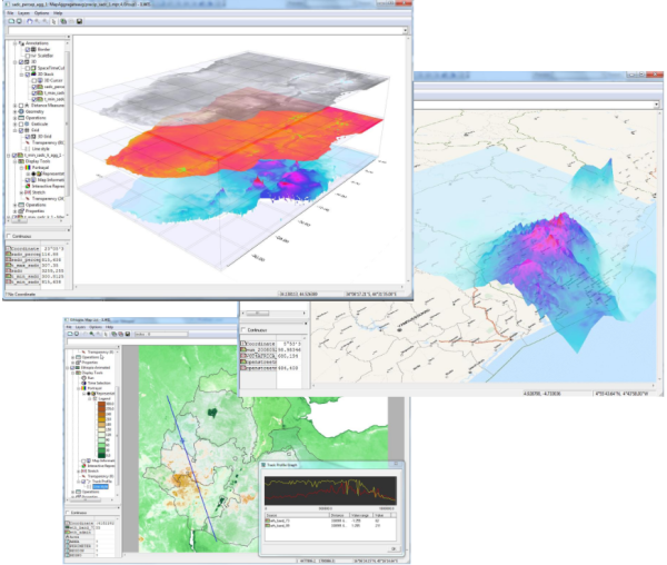 A combination of three mapwindows in the GIS package ILWIS (3.8)